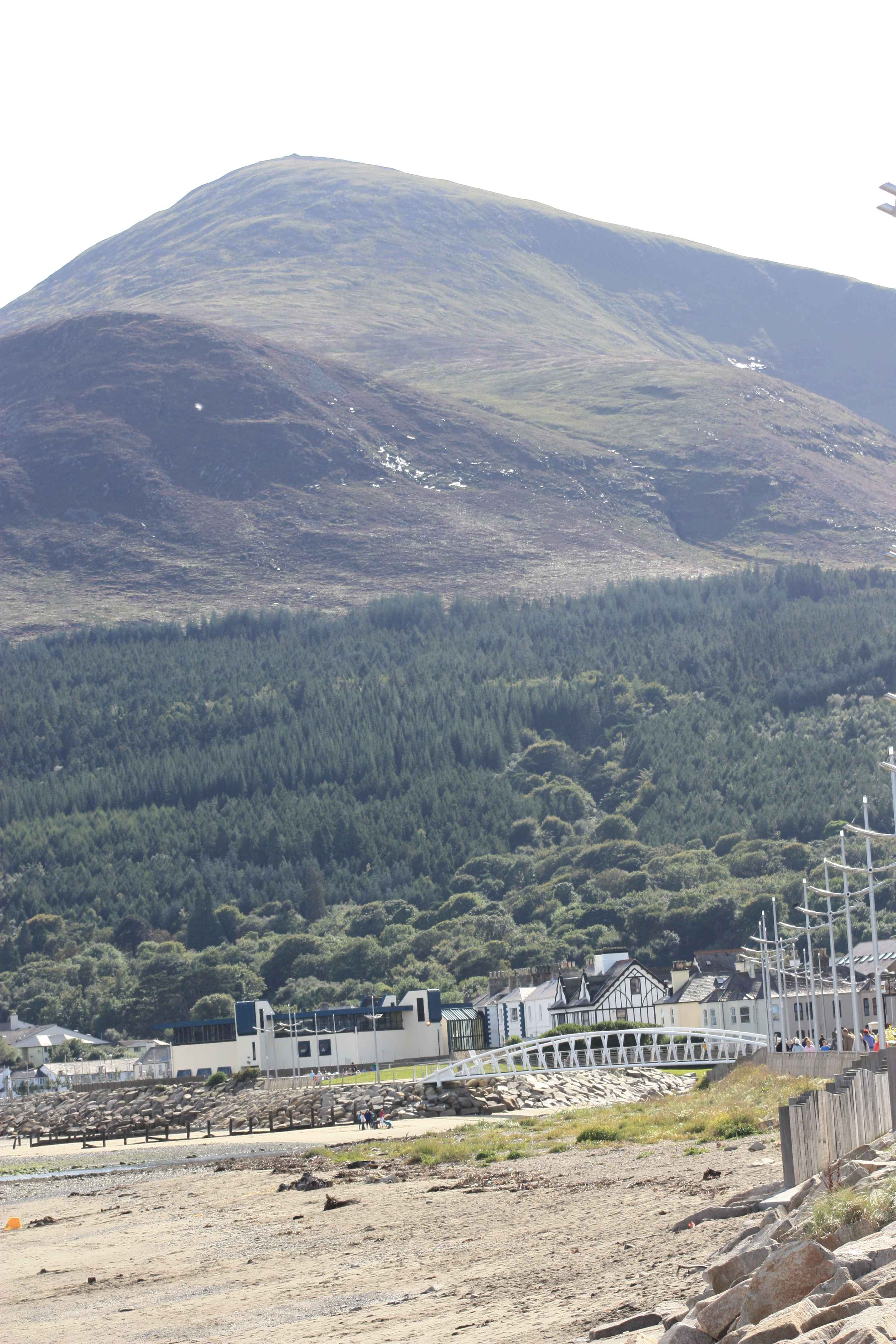 Beach and Slieve Donard, Newcastle, County Down, Northern Ireland, August 2009